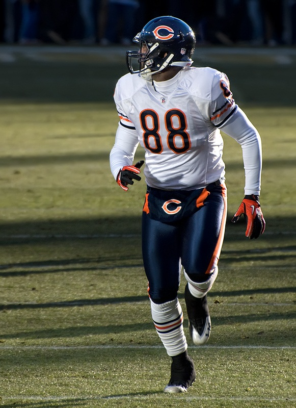 Lambeau Field - January 2, 2011. Photo by Mike Morbeck.